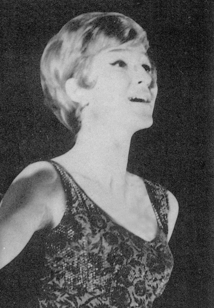 Ludmiła Jakubczak (1939-1961) Polish vocalist